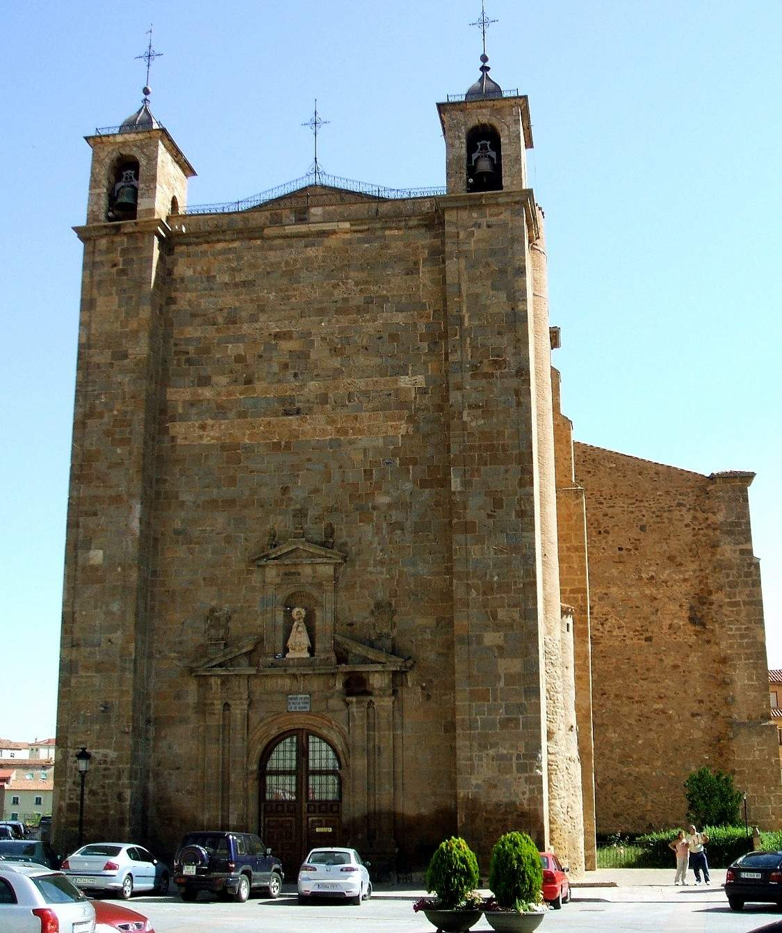 Basílica de Nuestra Señora de los Milagros, Ágreda, Soria, Castilla y León, España